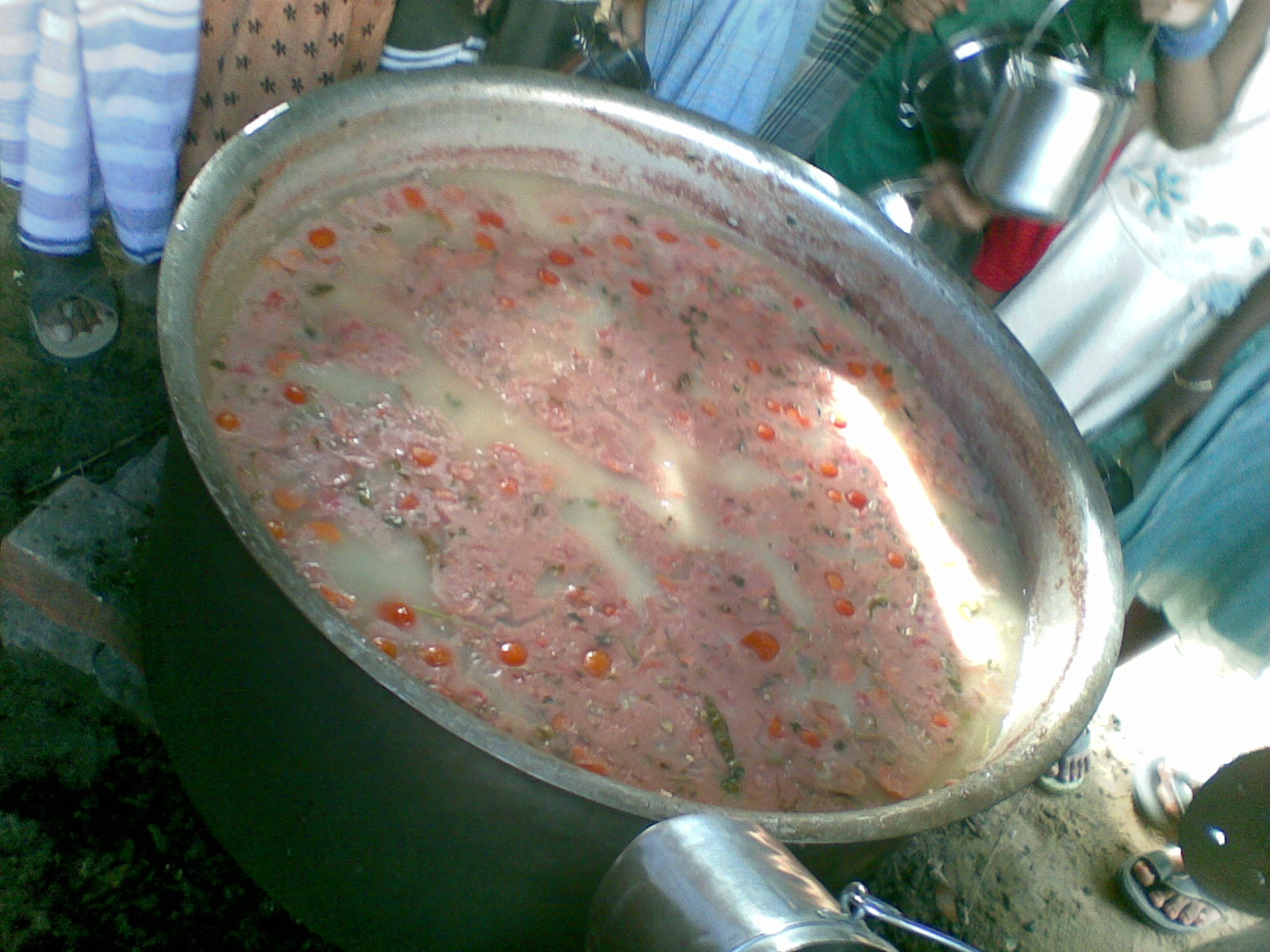 நோன்பு கஞ்சி சட்டி